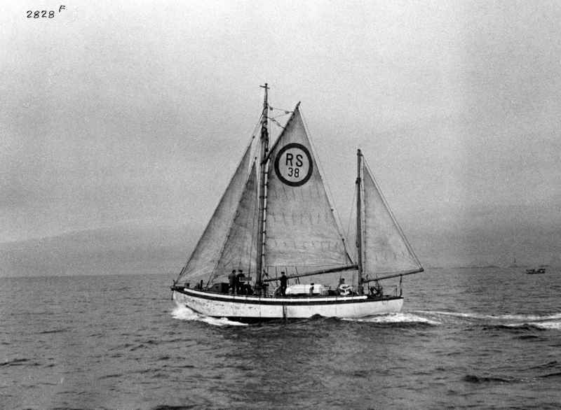 Search and rescue boat RS 38 Biskop Hvoslef